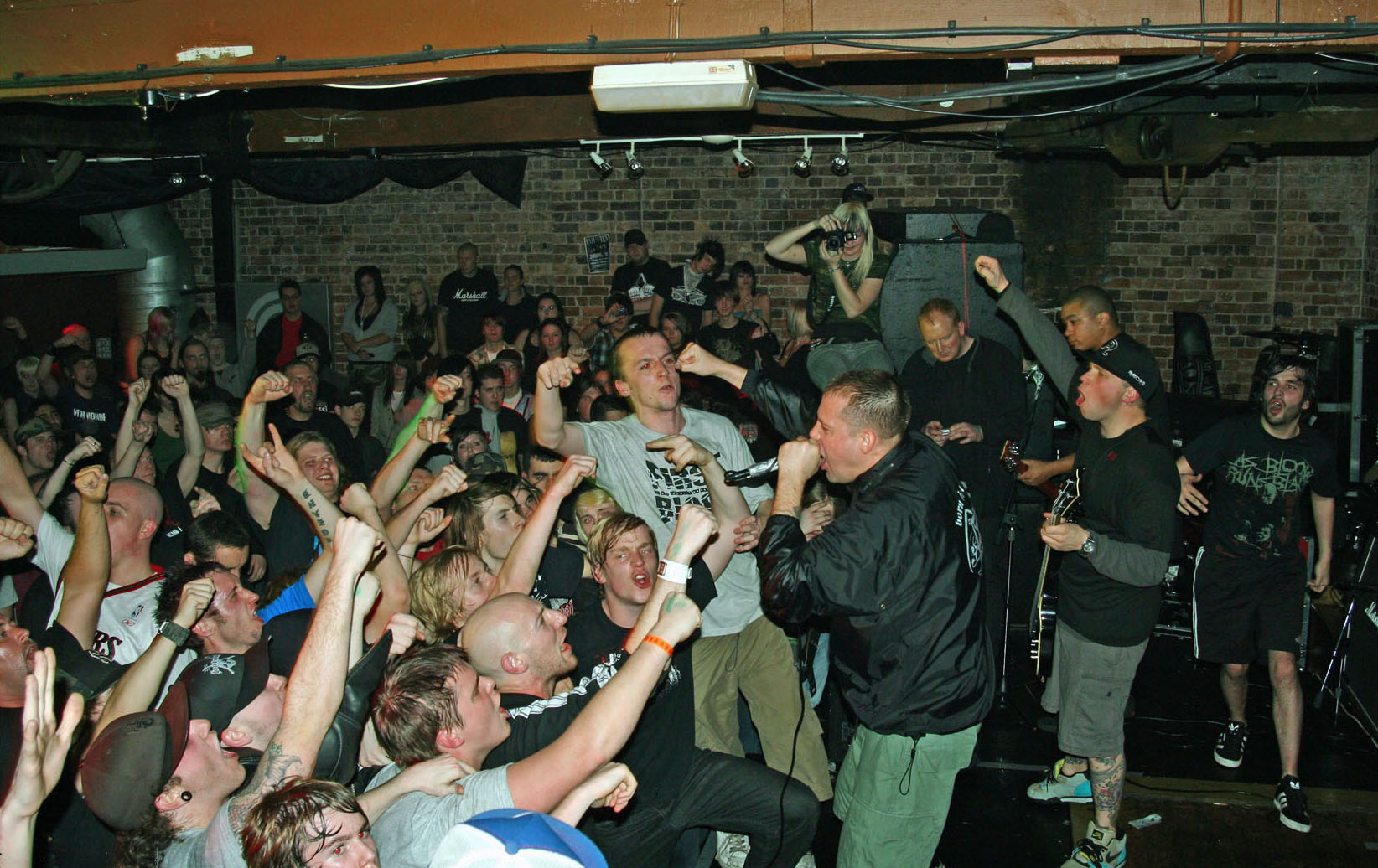 Terror in Wolverhampton UK Taken By